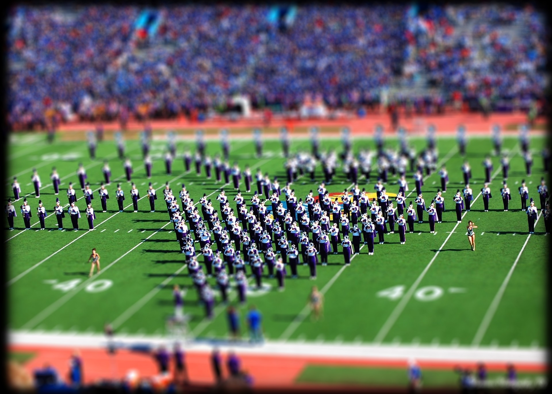 My first attempt at Tiltshift. Pretty good results I think. This is the K-State Band performing in Lawrence. View On Black